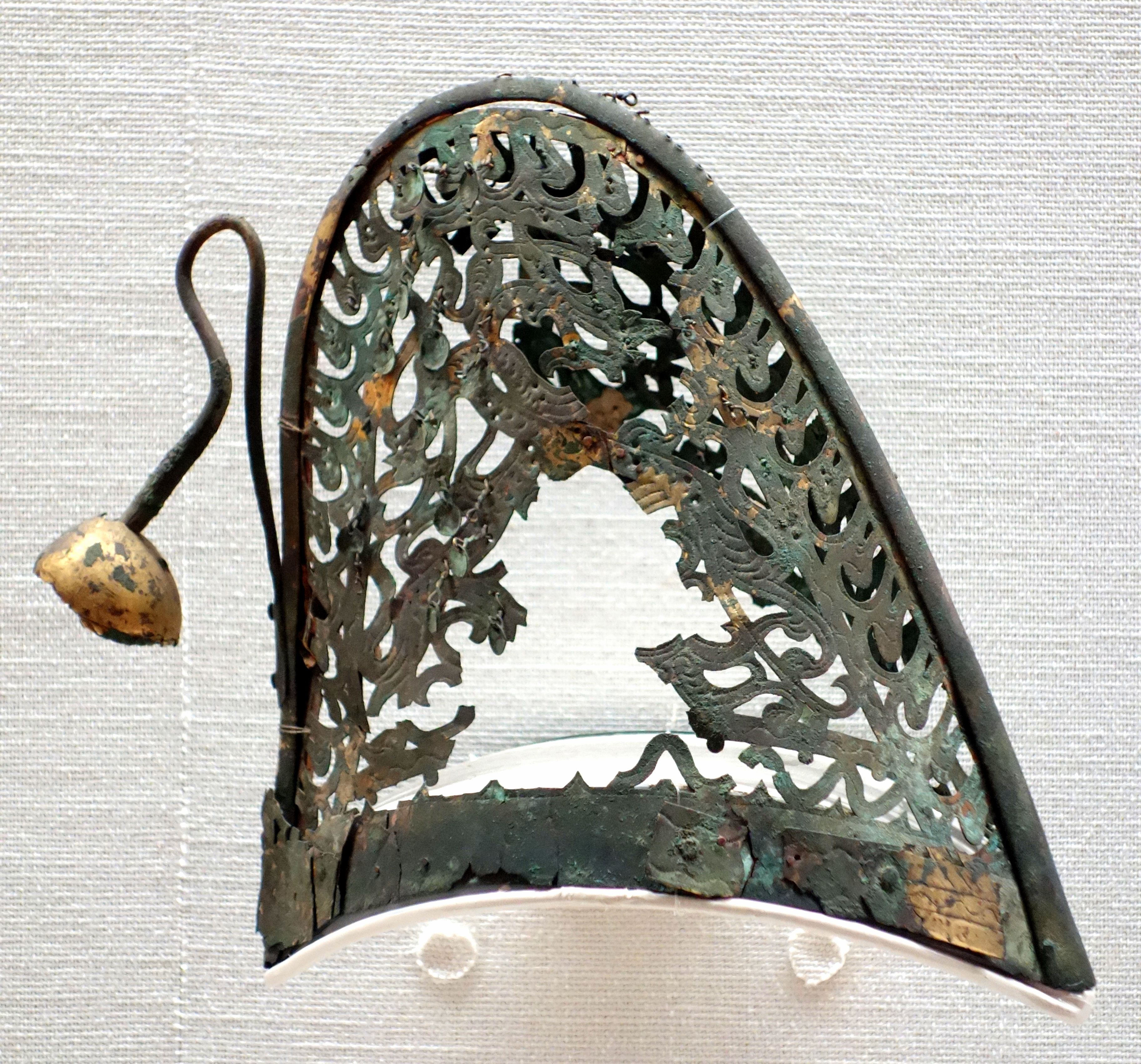 Exhibit in the Tokyo National Museum, Tokyo, Japan. This artwork is old enough so that it is in the public domain.